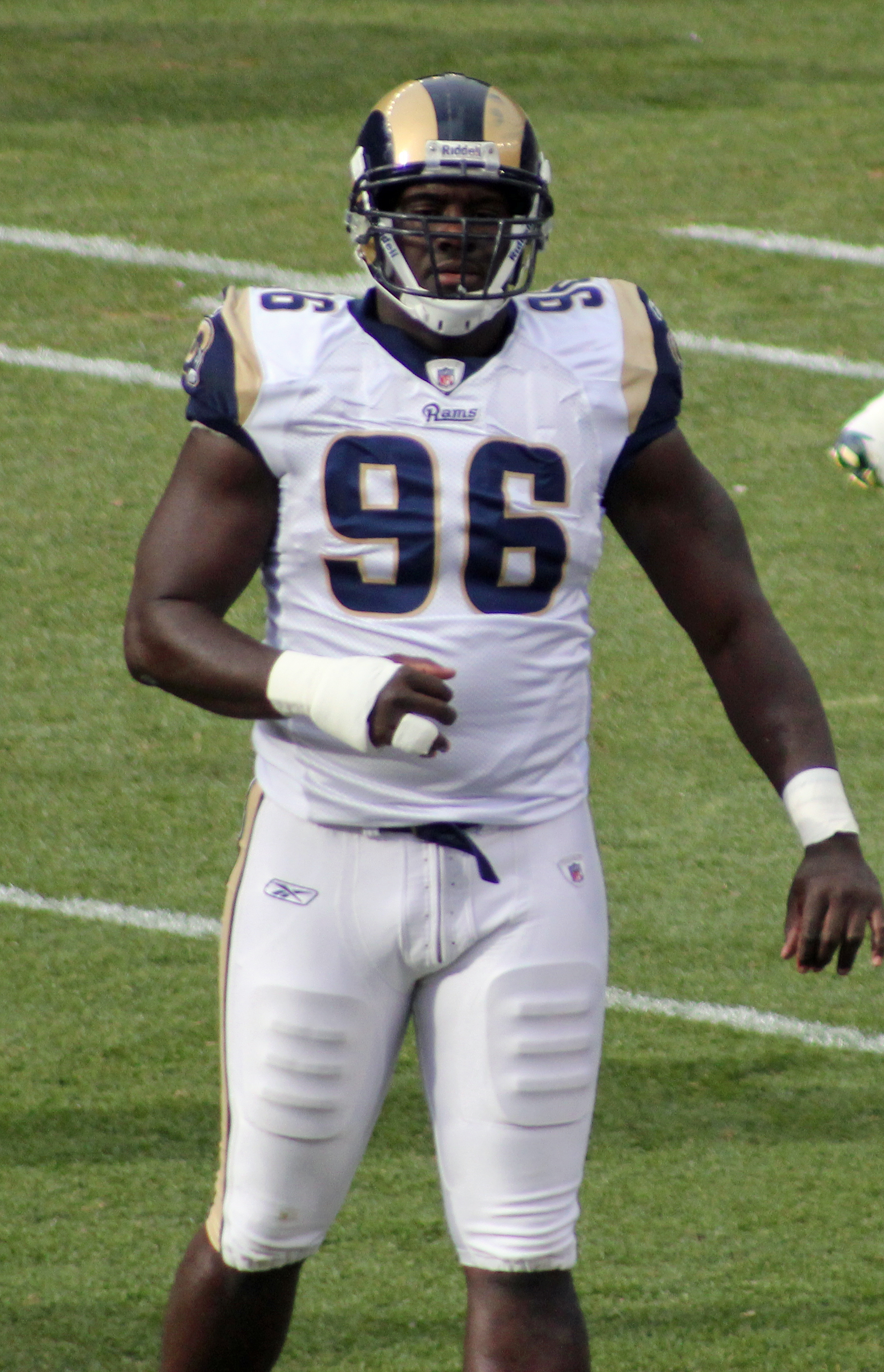 James Hall, a player on the Saint Louis Rams American football team.